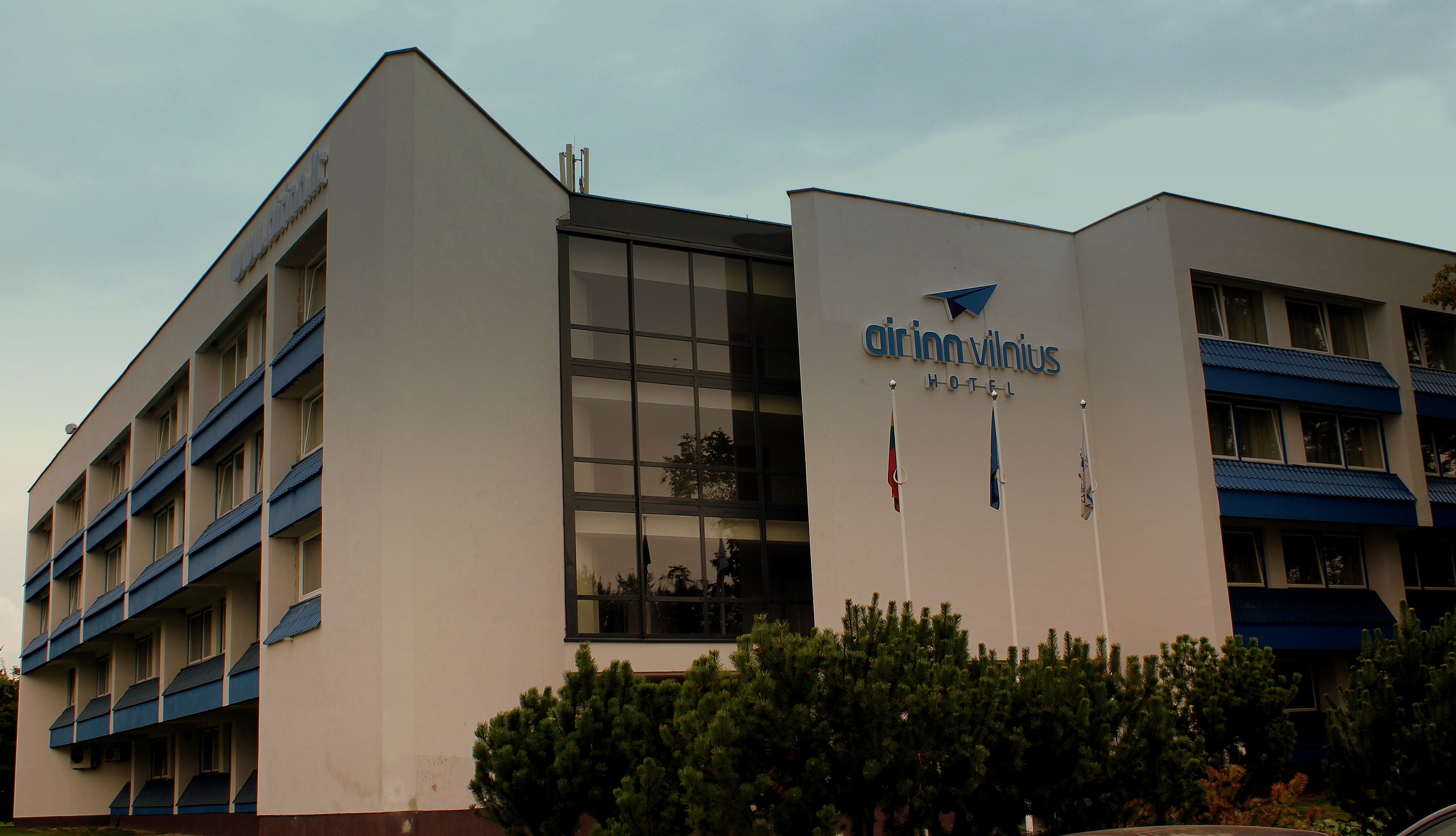 THE AIR INN HOTEL VILLINUS ORO UOSTAS AIRPORT LITHUANIA SEP 2013